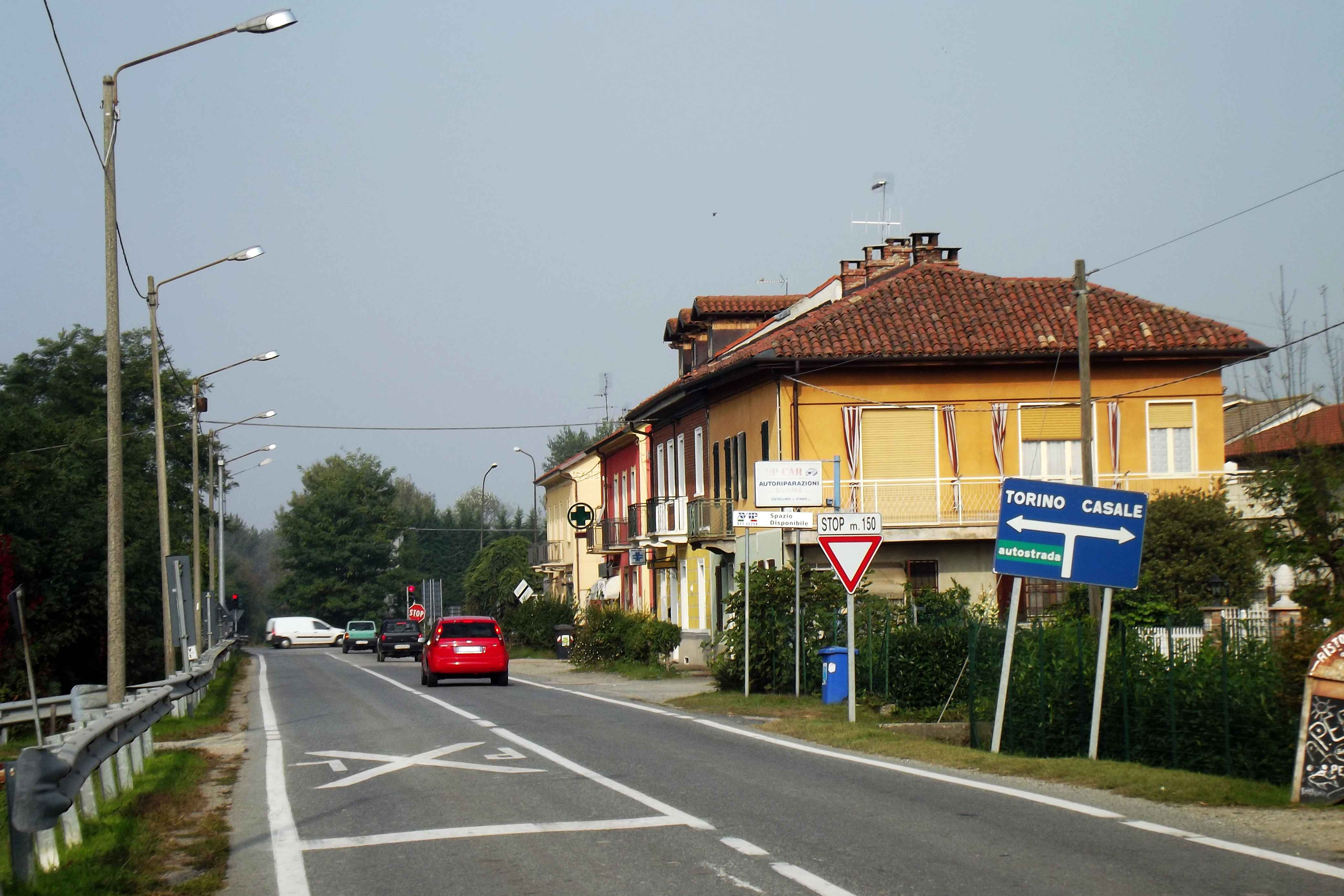 Former national road n. 458 di Casalborgone at its jonction with the former national road n. 590 della Val Cerrina - San Sebastiano da Po (TO, Italy)